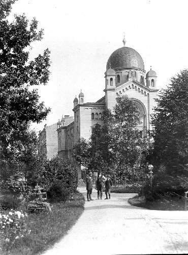 Synagogue of Eger - Cheb